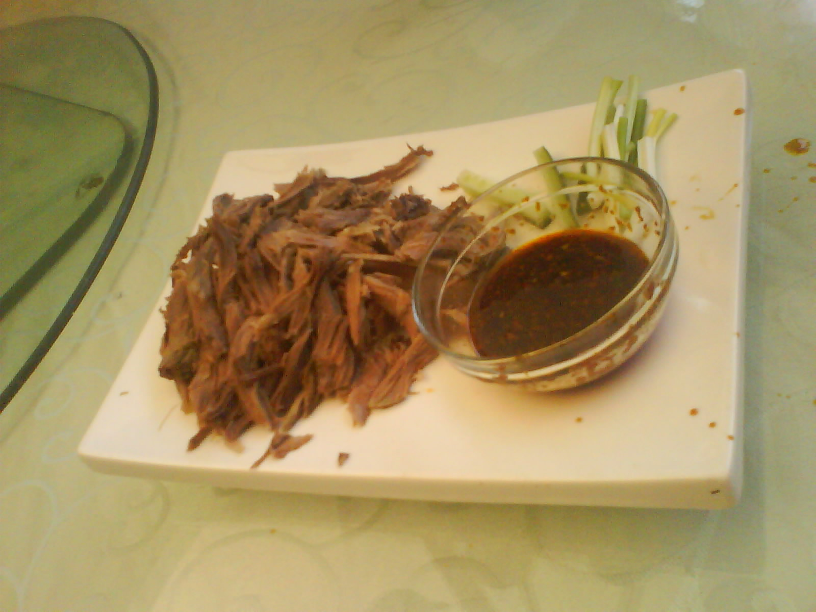 Cold dog meat and its sauce at Beijing